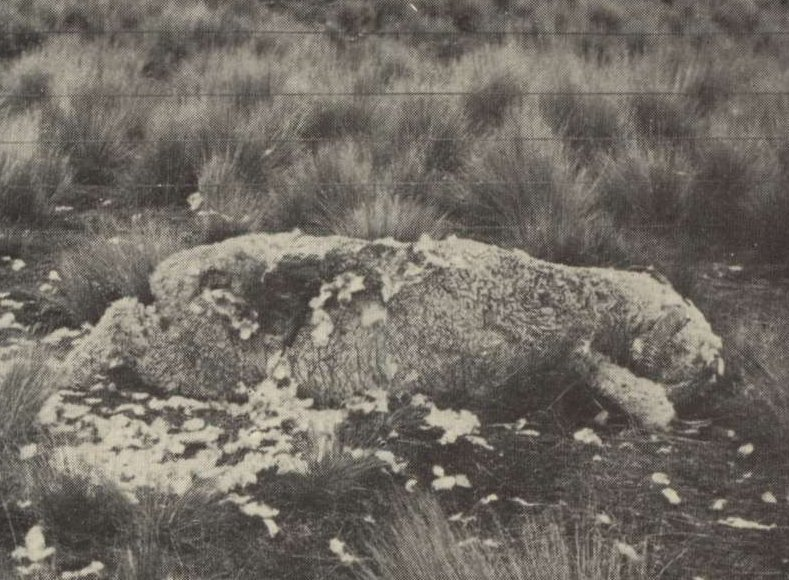 Sheep killed by kea. Original description from Marriner (1907): "The first dead sheep was found at the foot of the Rolleston Range, about ten miles above the Rakaia Forks, on a broad expanse of river-flat, known at the homestead as the “Top Flat.” The animal was a merino ram, in splendid condition, and, from the place in which it was found, it had apparently been chased by the bird or birds until it was cornered where two wire fences met, and there injured. The sheep was quite dead, and lying on its wounded side. On turning the beast over we found an ugly black-looking wound on the right loin at 11 in. from the tail. The hole was 5 in. long by 4 in. wide The wool was all torn off, and the flesh was removed so that the transverse processes of lumbar vertebræ were visible. Though a deep hole had been made in the flesh, the birds had not reached the body-cavity, nor had they injured the kidneys, and from the appearance of the animal it seemed as if it had died from blood-poisoning. Further up the back there were several other places where the wool had been picked. We proped the sheep up in order to photograph it, and on returning next day we found that the keas had evidently been at it, as was shown by the wool which was scattered around the carcase."